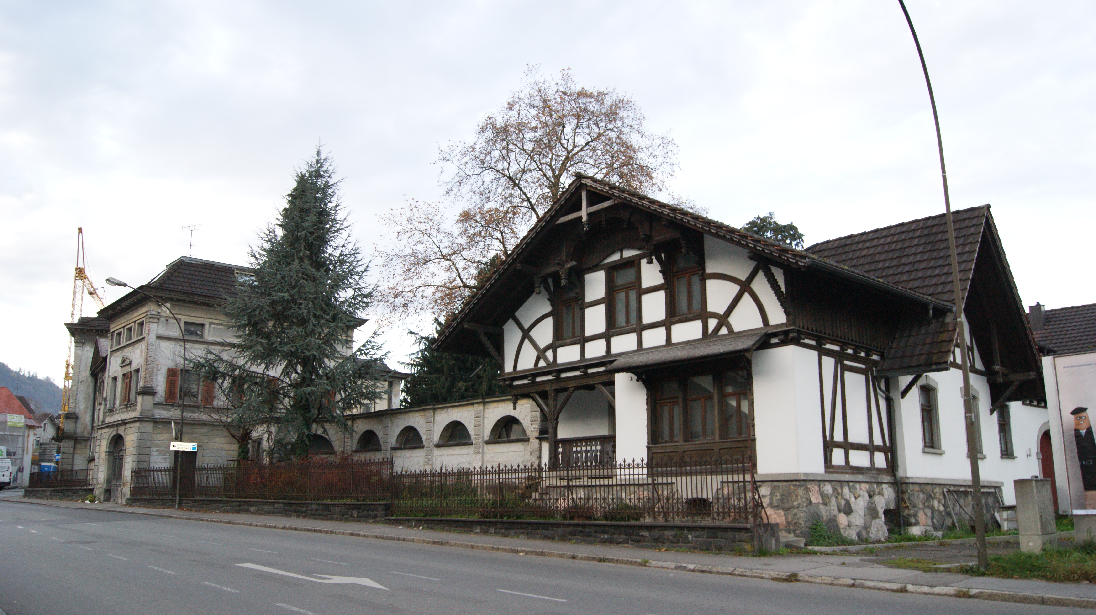 Part of the Villa Ivan Rosenthal, Radetzkystraße No. 1 in Hohenems, Vorarlberg, Austria. Built in 1890, main building with hipped and cross-gabled roof, cube-shaped with klassizisierender entrance section, side wings, Wirtschaftstrakt with half-timbered.